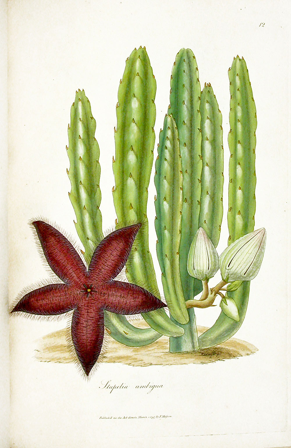 Stapelia ambigua Masson is a synonym of Gonostemon grandiflorus var. ambiguus (Masson) P.V.Heath